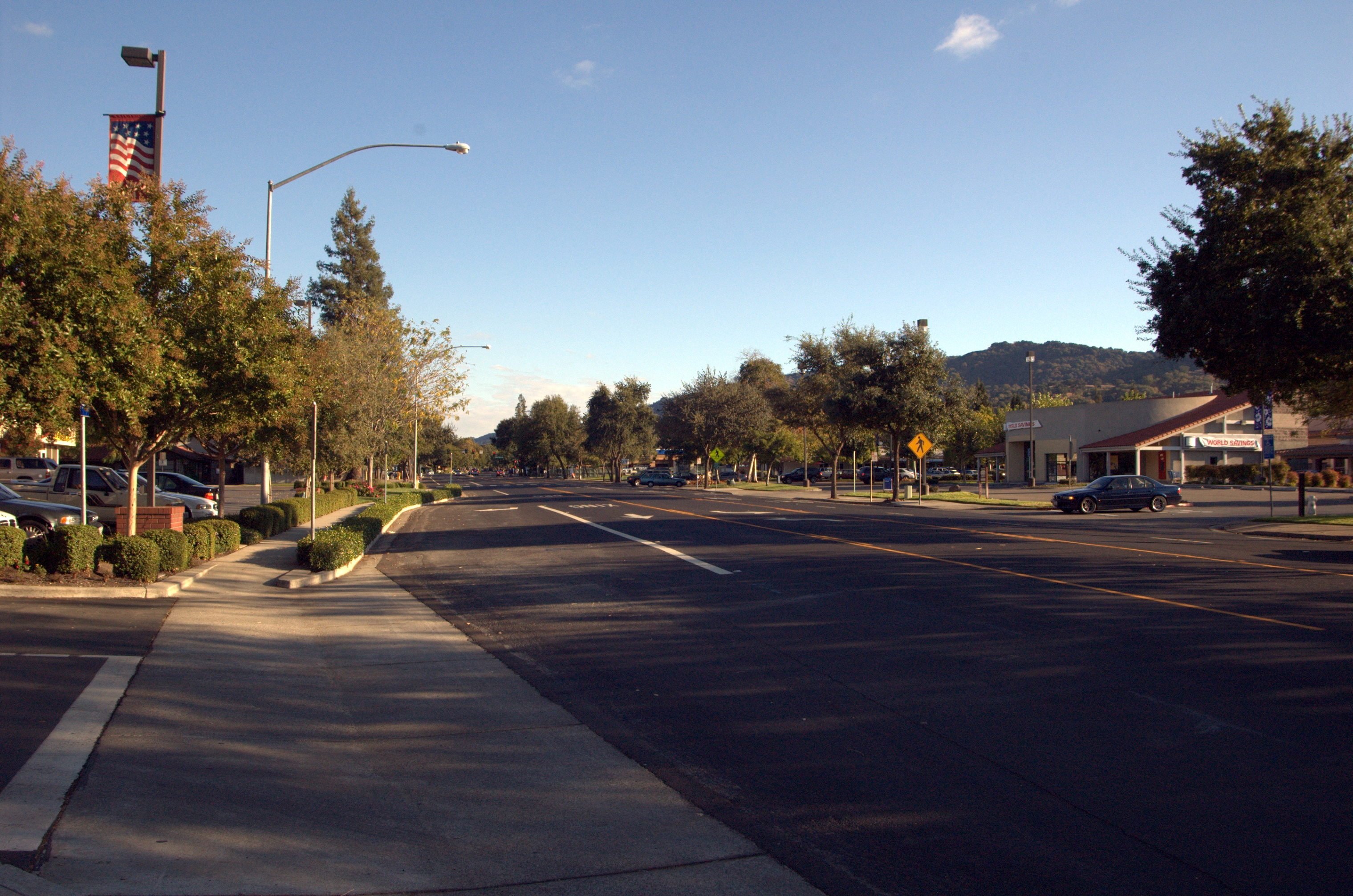 North side of Downtown Alamo, facing South along Danville Blvd.